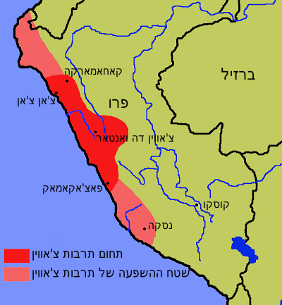 Chavin culture extent map in Hebrew